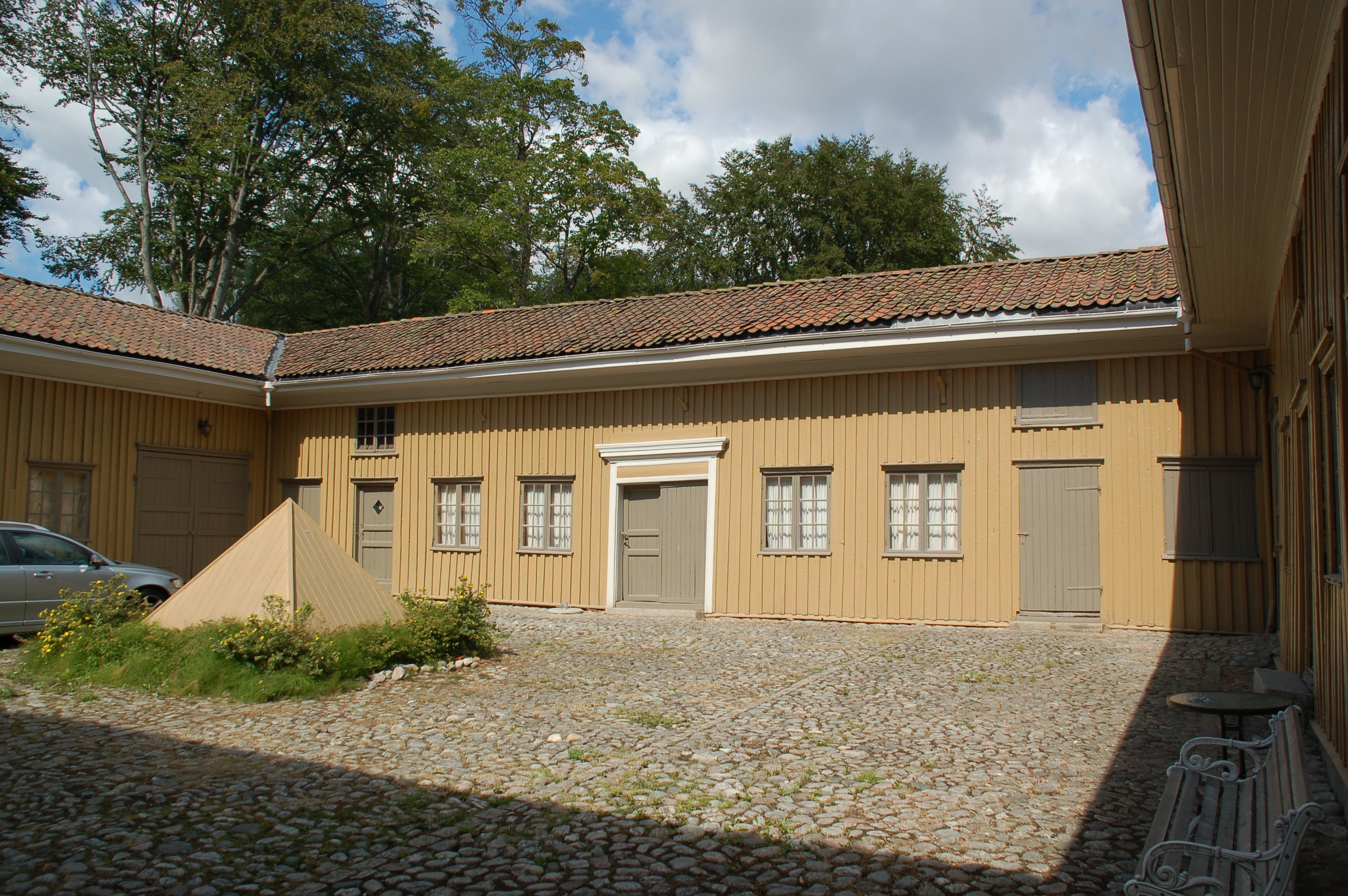 The Commanders residence, Fredriksten fortress, Halden, Norway